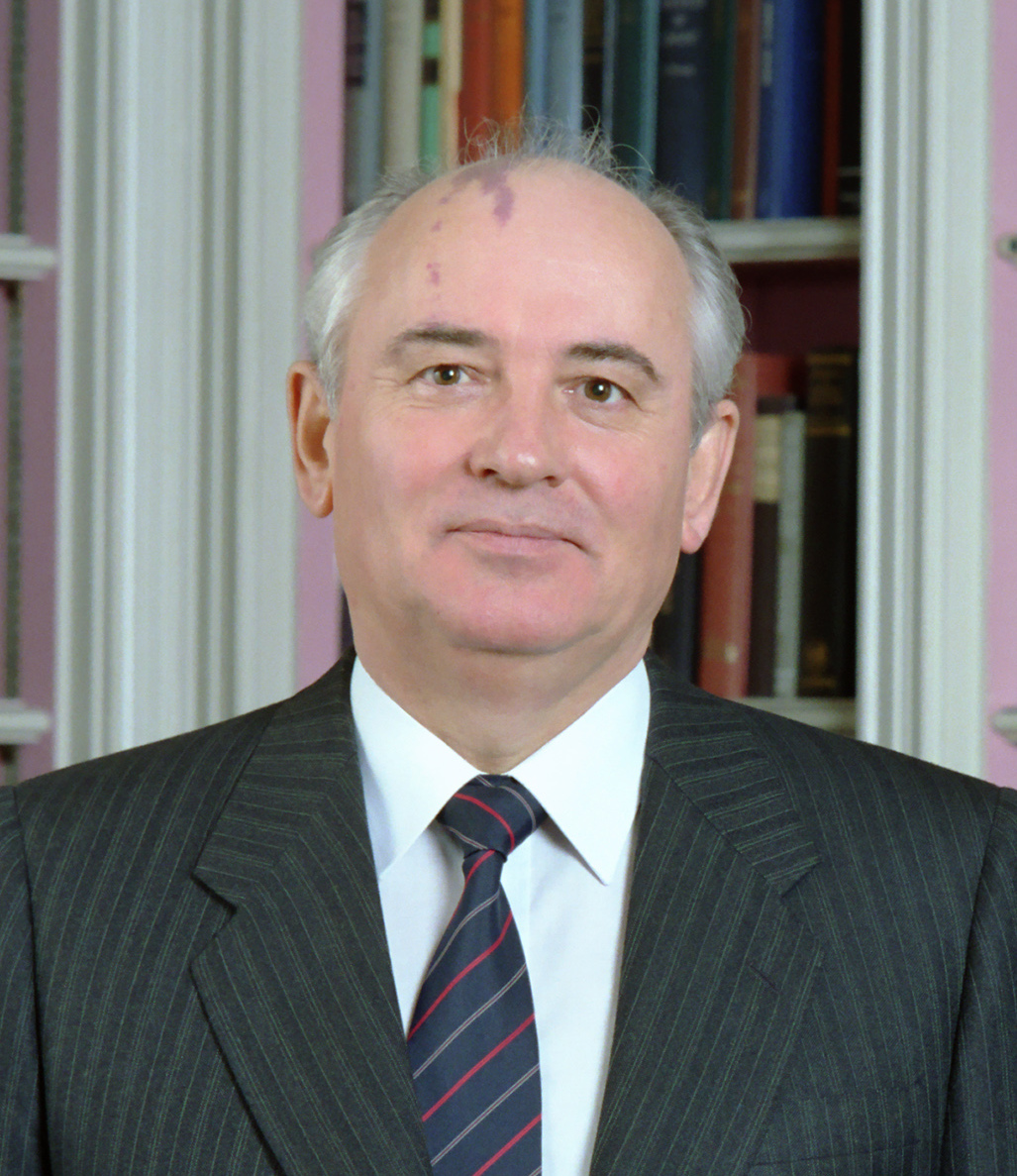 A Cropped version of the Soviet General Secretary Gorbachev in the White House Library